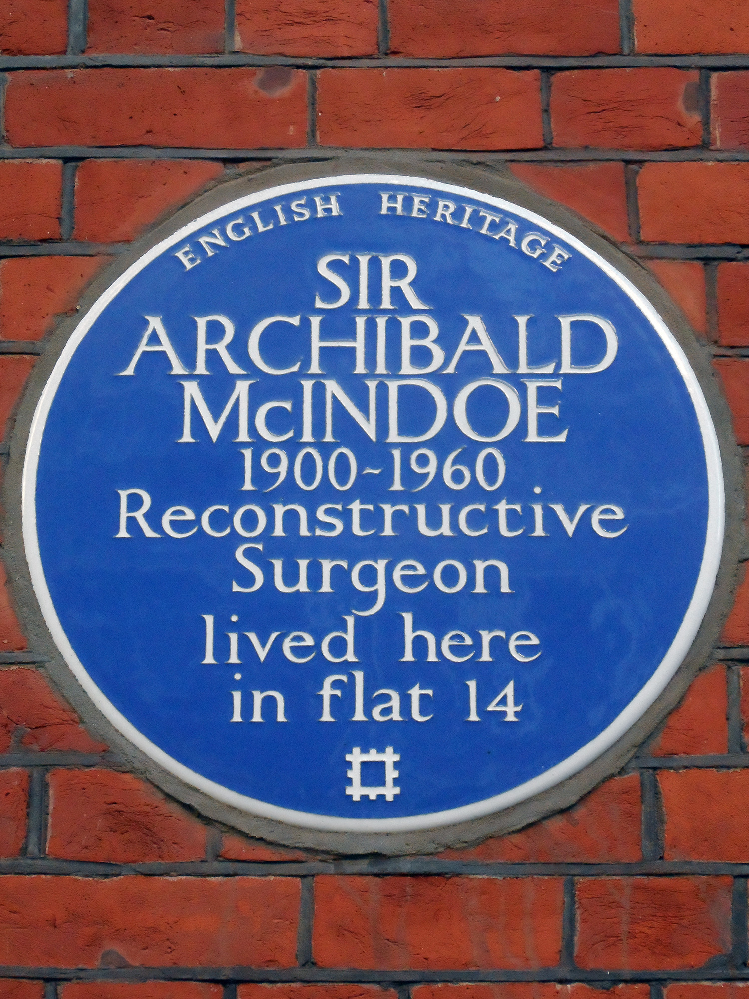 Plaque erected in 2000 by English Heritage at Avenue Court, 23-29 Draycott Avenue, Chelsea, London SW3 3BU, Royal Borough of Kensington and Chelsea